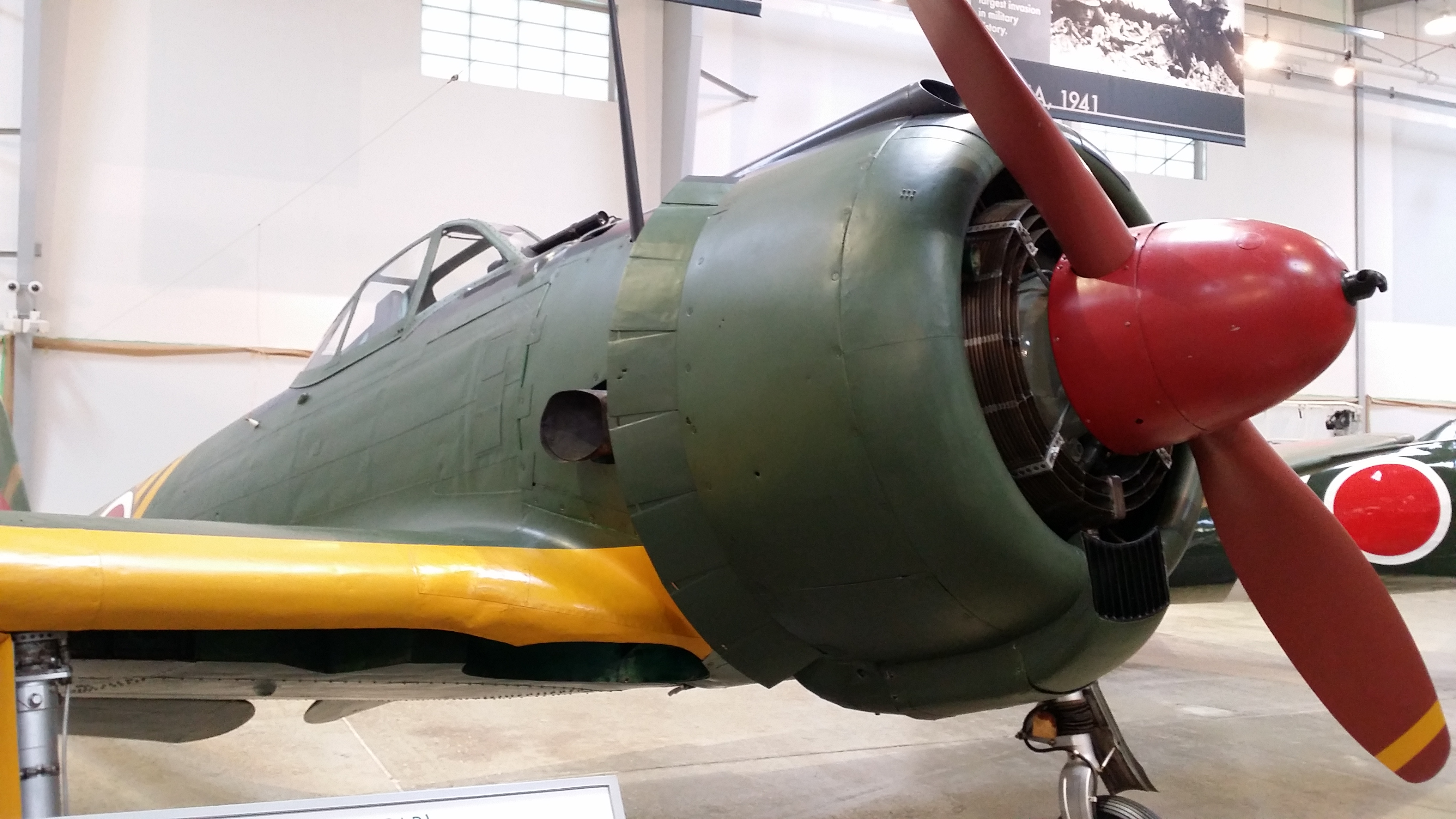 Paine Field-Lake Stickney, WA, USA